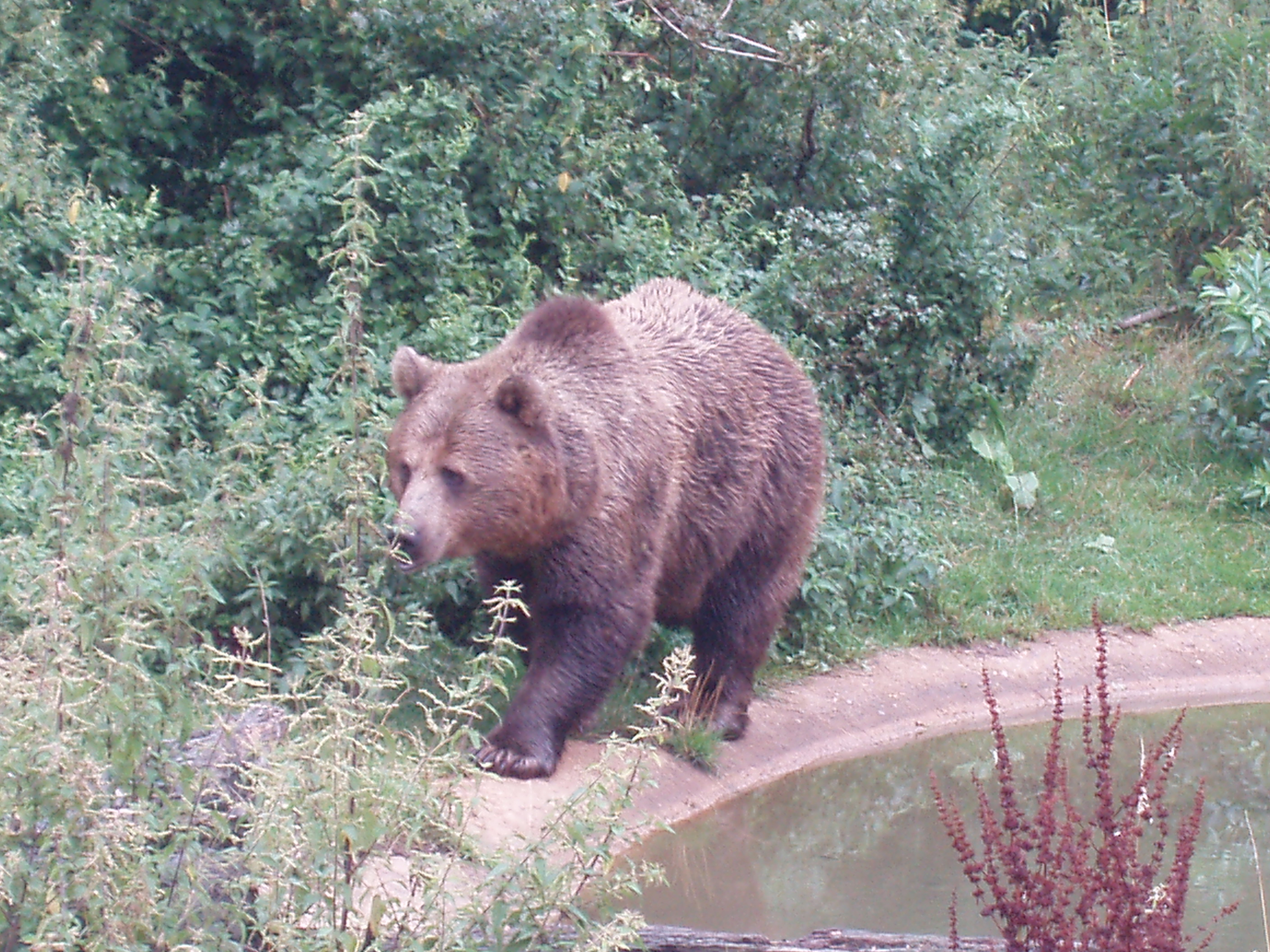 Eurasian brown bear at ZSL Whipsnade Zoo Summer 2006.